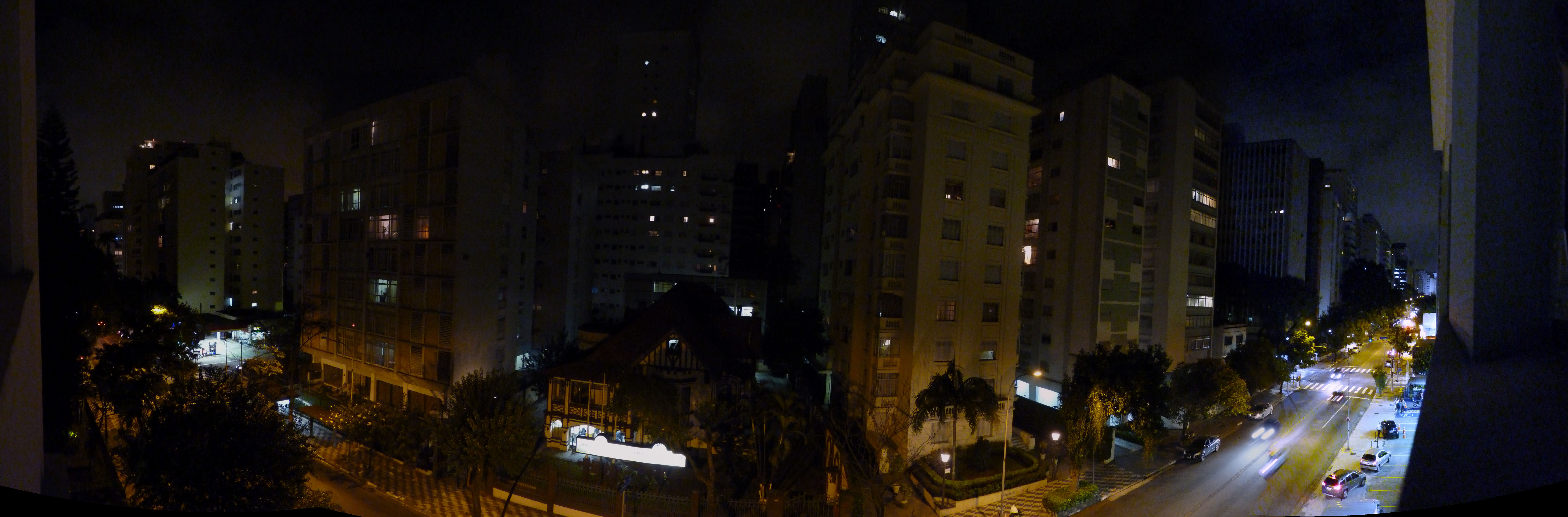 Panoramic Photo from the central region of São Paulo city, Brazil. Angelica Avenue. ISO800, Automatic Panoramic mode on Panosic LUMIX FZ35. compiled using Arcsoft Panorama Maker4. Croped, resized and rotated with Photoshop CS4.